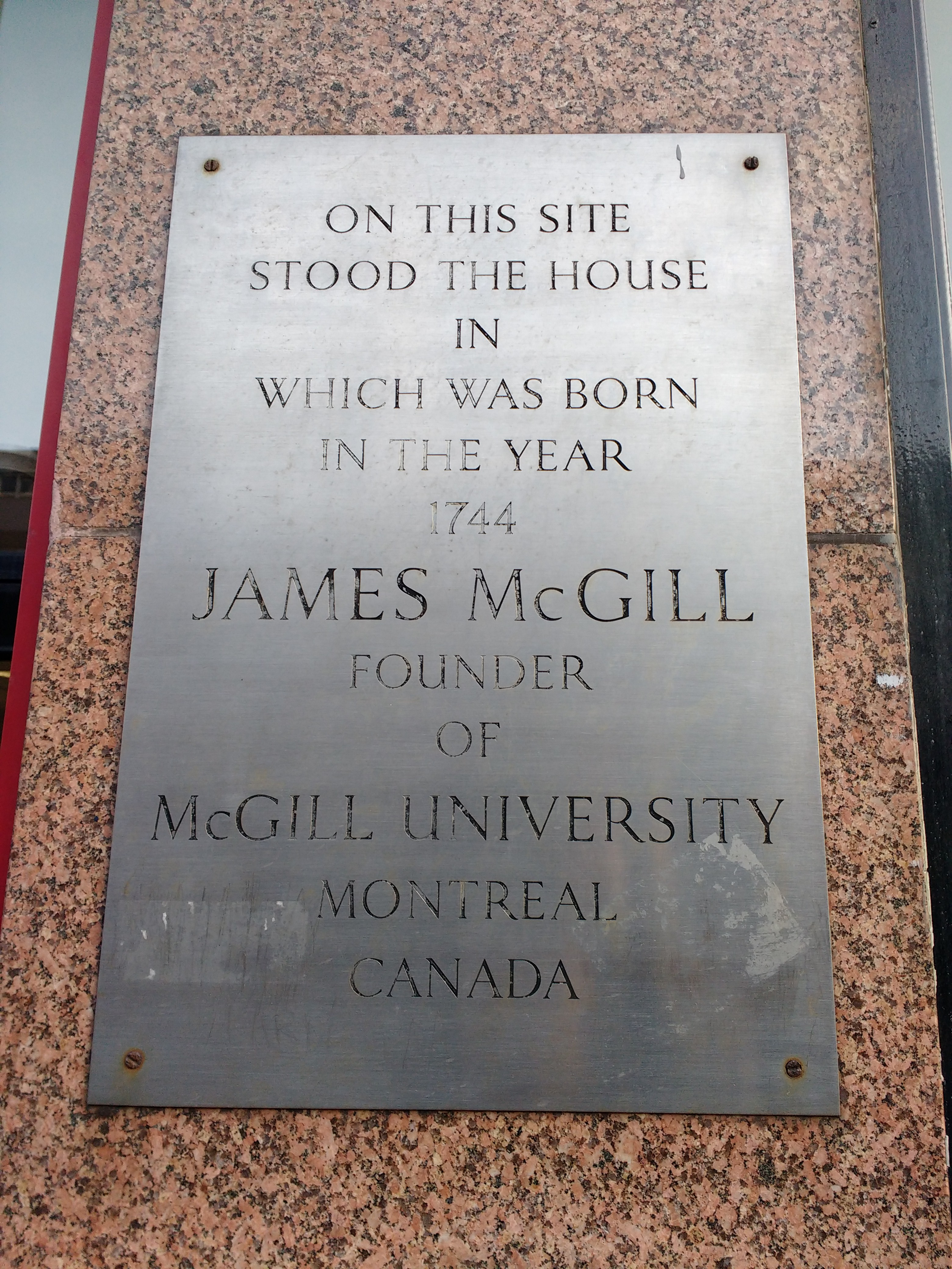 This plaque commemorates the location of the house in which James McGill, founder of McGill University, was born. It is located on Stockwell Street in Glasgow